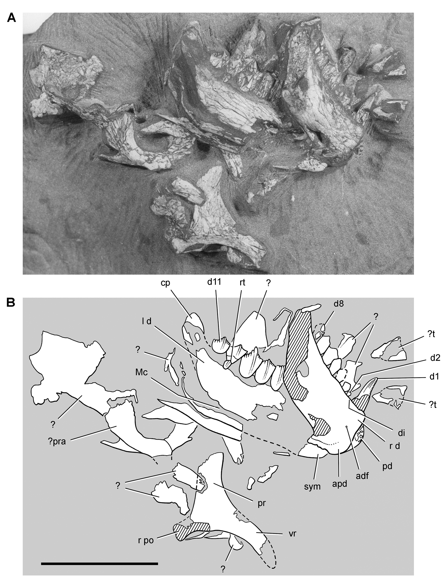 Holotype of Pegomastax africana: Partial Skull with jaw fragments and teeth, photo and drawing.